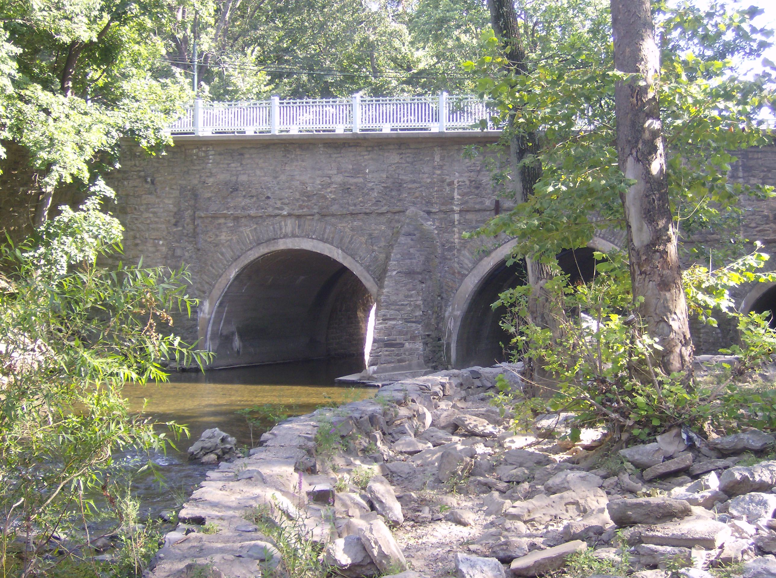 The stone arch bridge on Frankford Avenue in Holmesburg, Philadelphia, Pennsylvania. Opened in 1697. Registered historic place since 1997.